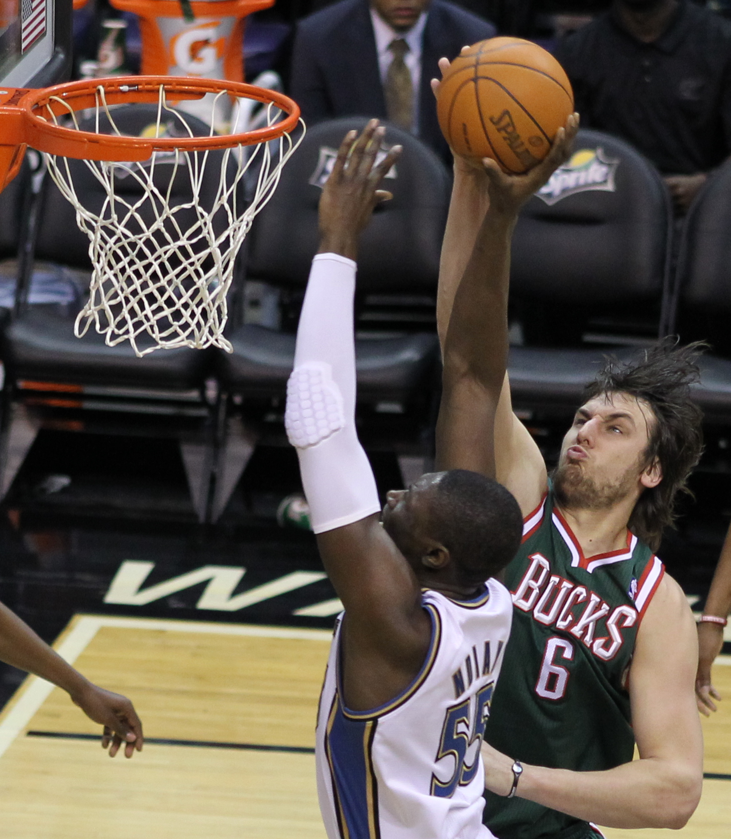 Wizards v/s Bucks 03/08/11: The Bucks' Andrew Bogut blocks a shot by the Wizards' Hamady N'Diaye.